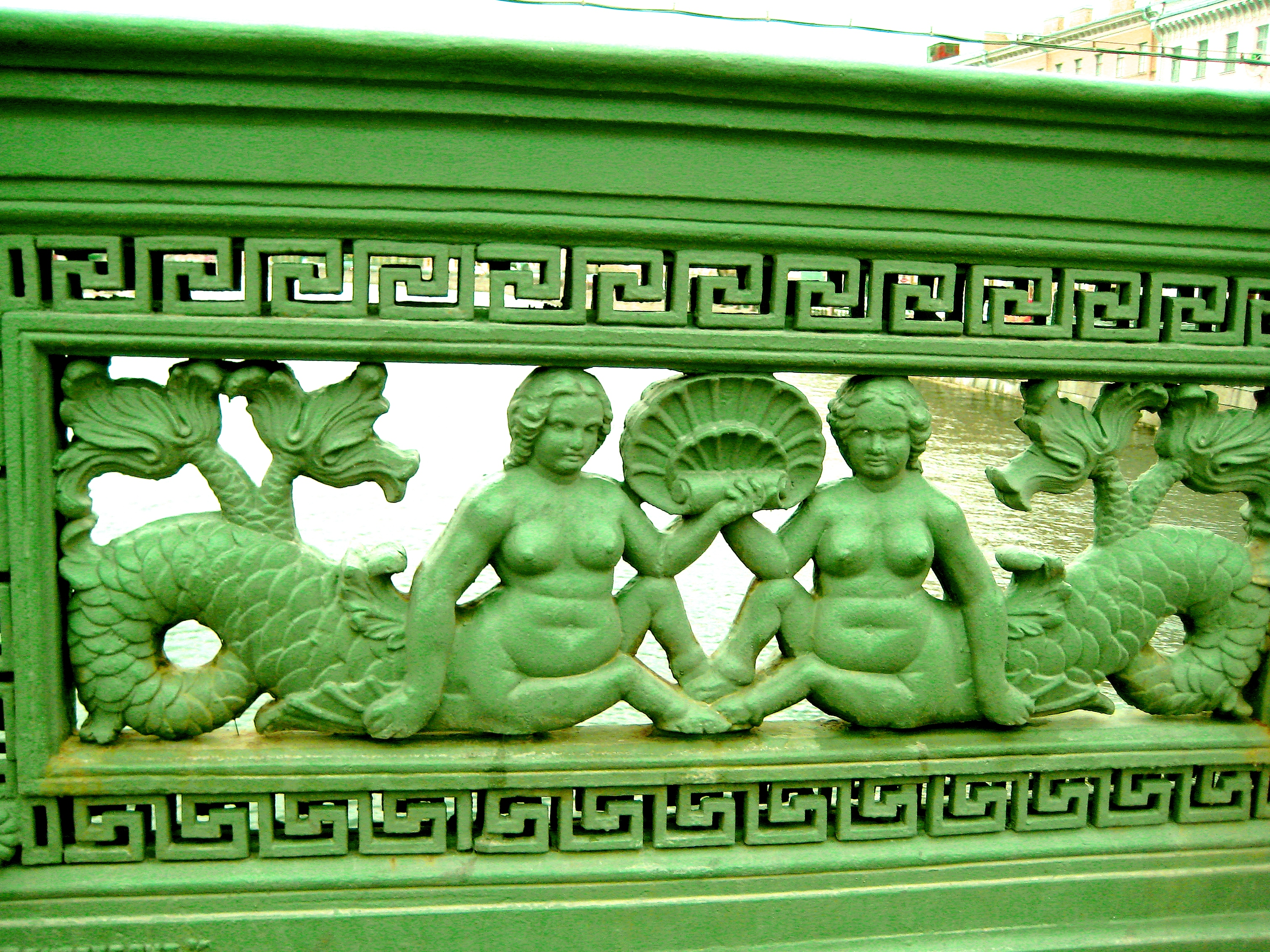 Anichkov Bridge. Fragment of the fence: Fontanka River, Nevsky Prospekt, Central District, St. Petersburg